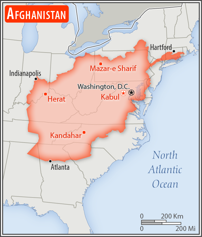 Comparison of the areas of two country. Area of Afghanistan with biggest cities (red) projected to area of the United States of America (gray background).